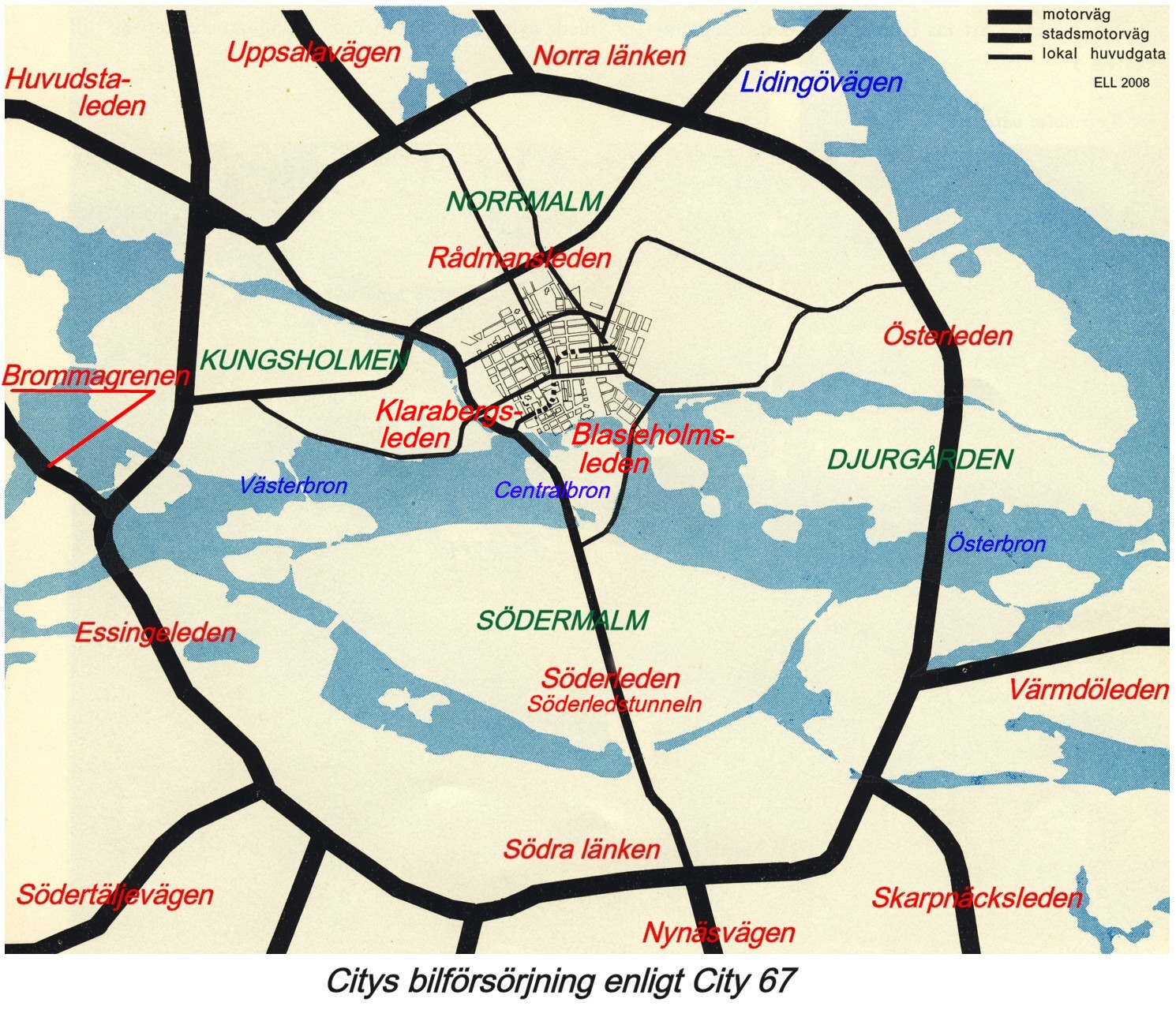 Planned High way ring around Stockholm 1967